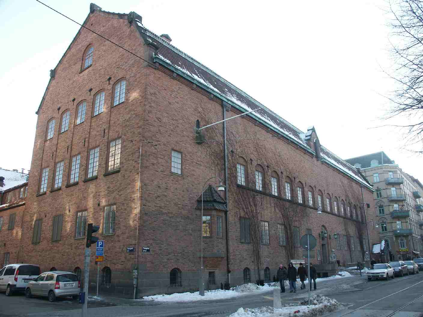 The Röhss Museum (Röhsska Museum) in Gothenburg. Example of National Romantic style architecture. Private picture for free use.